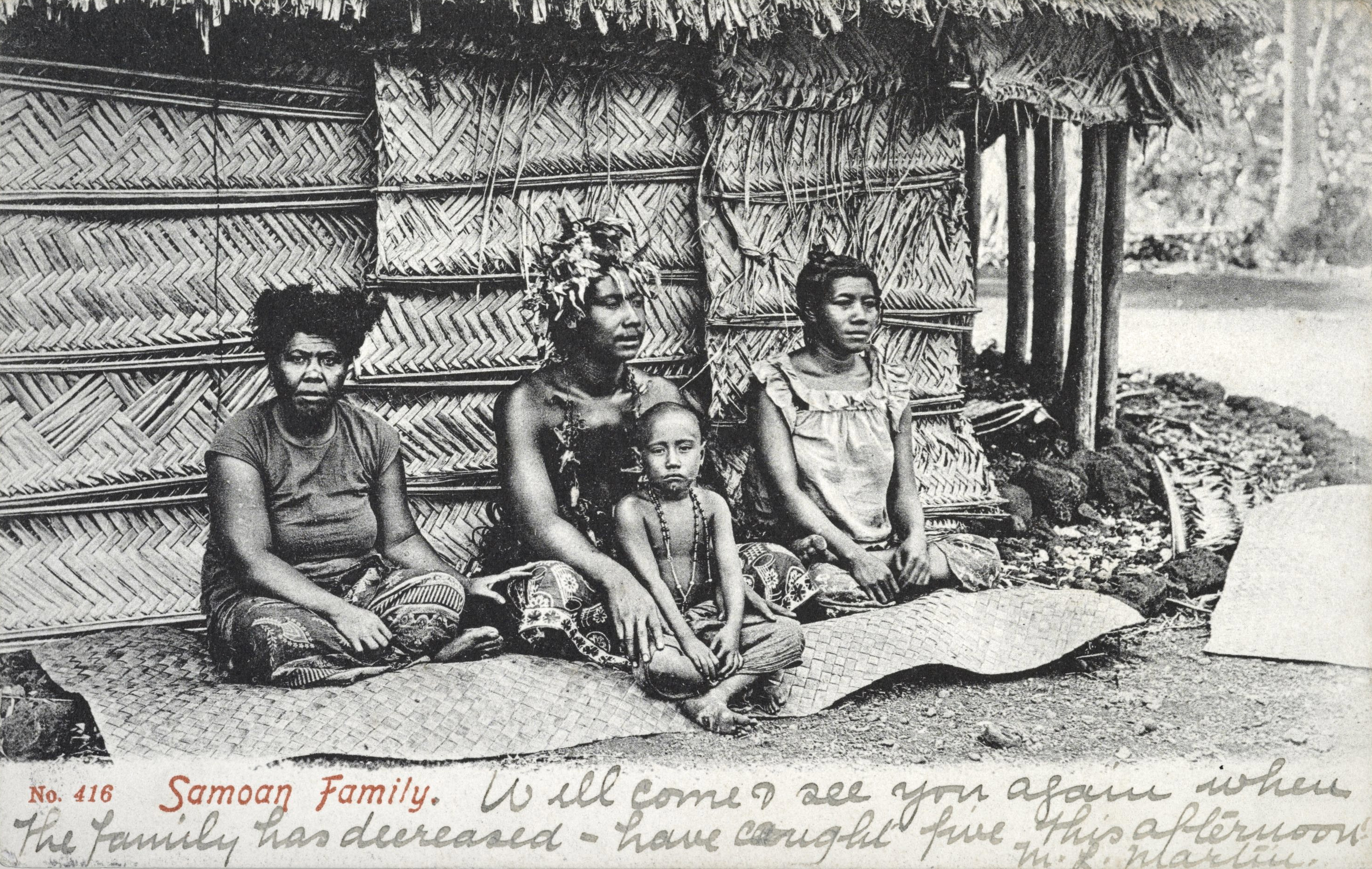 Picture postcard of Samoan family, circa 1909. Two women, a man and a child sitting on a mat in front of a thatched building. size of the postcard: Height: 92 mm (3.62 in); Width: 142 mm (5.59 in) dimensions QS:P2048,92U174789;P2049,142U174789